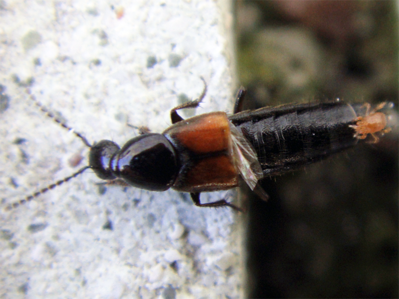 Philonthus nitidicollis with a parasite in Ansião, Leiria, Portugal